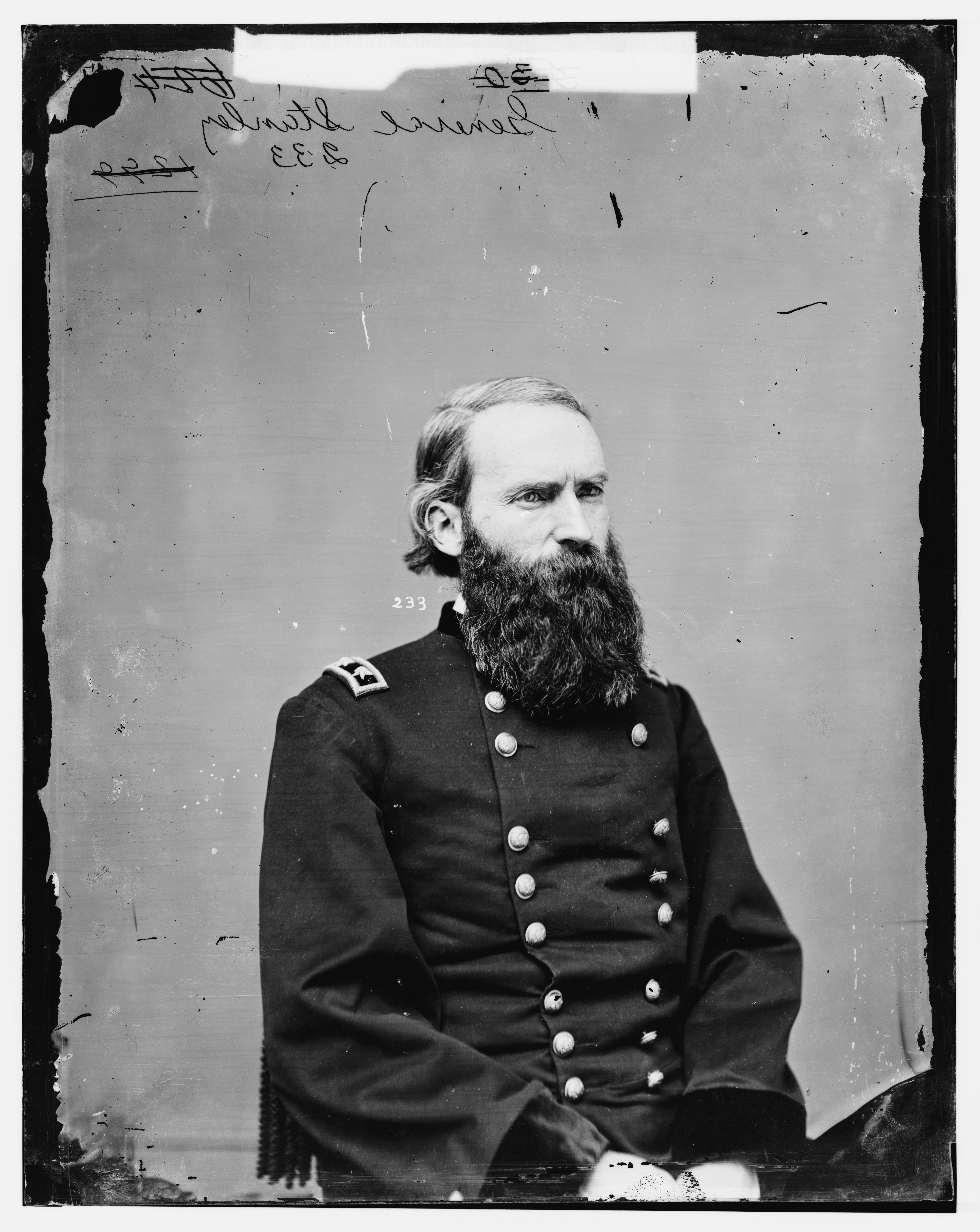 Title: General D.S. Stanley, U.S.A. Physical description: 1 negative